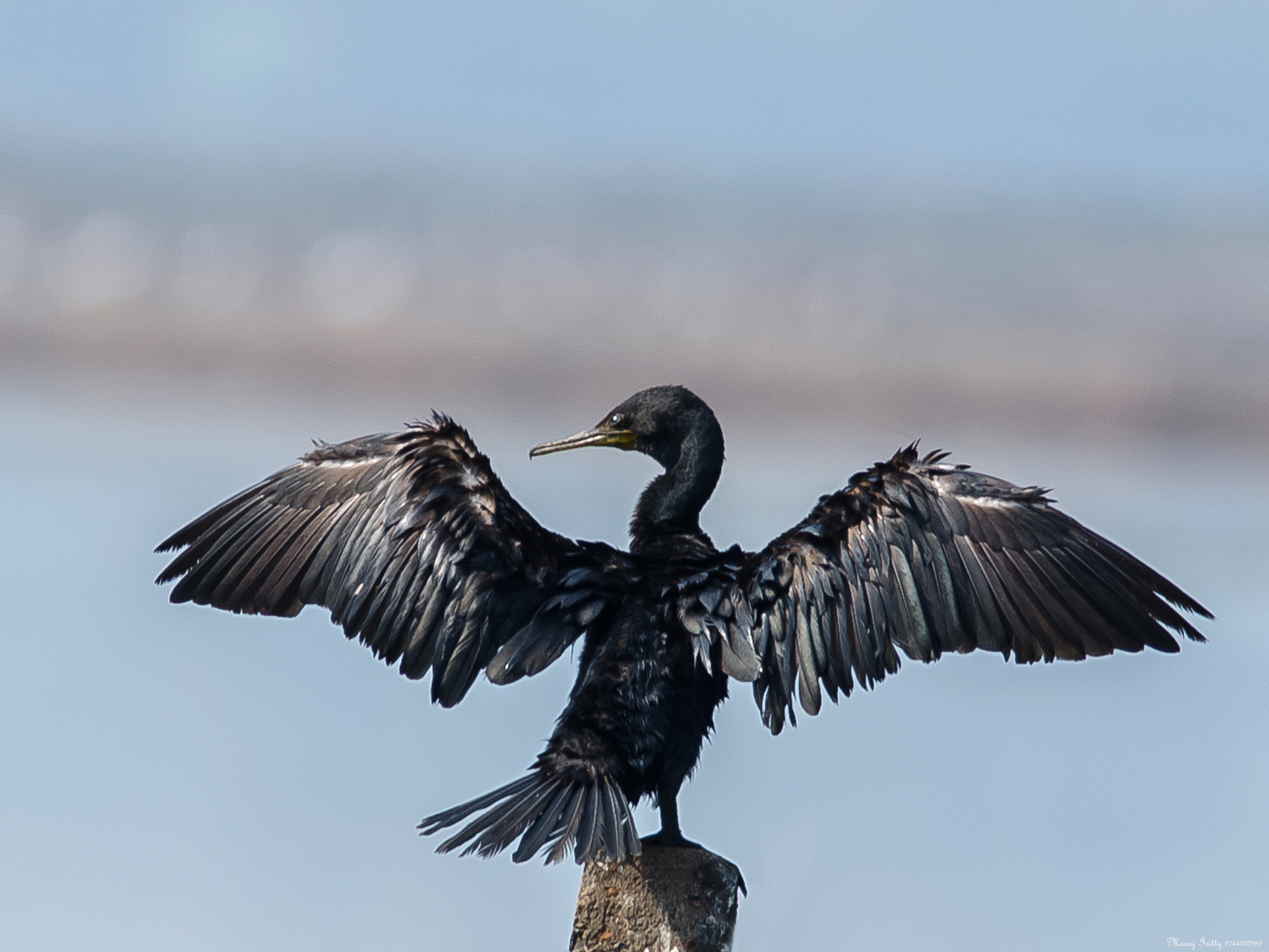 Indian Cormorant Phalacrocorax fuscicollis, Munderikadavu, Kerala, India